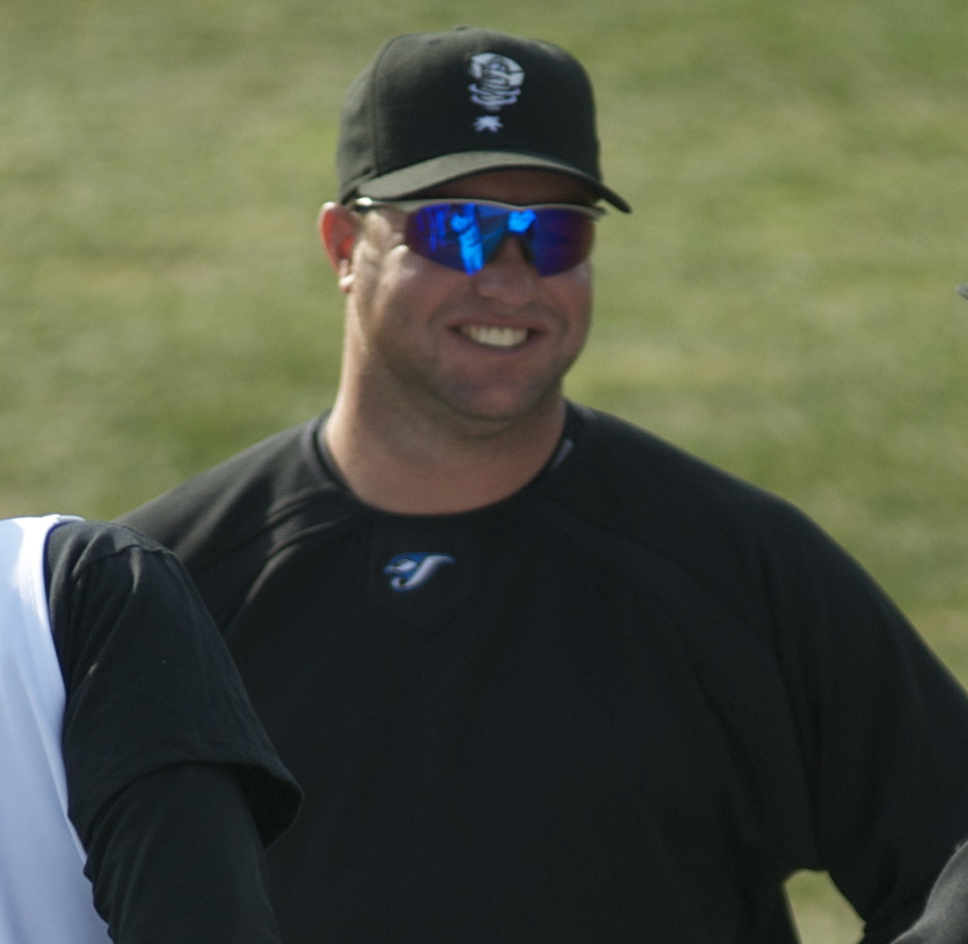 Lansing Lugnuts players warm up before a game in Lansing, Michigan in 2008